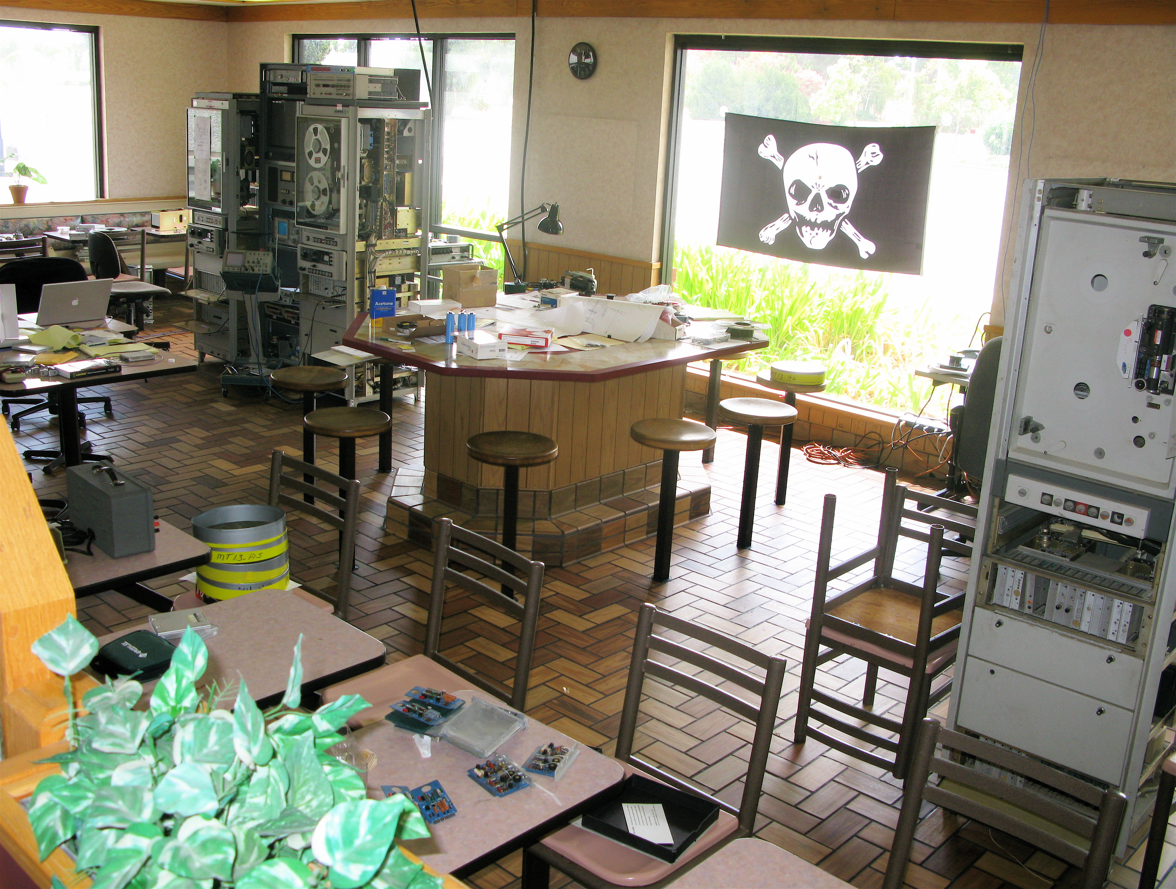 We discovered a most unusual covert operation in a McDonalds today? What could it be?